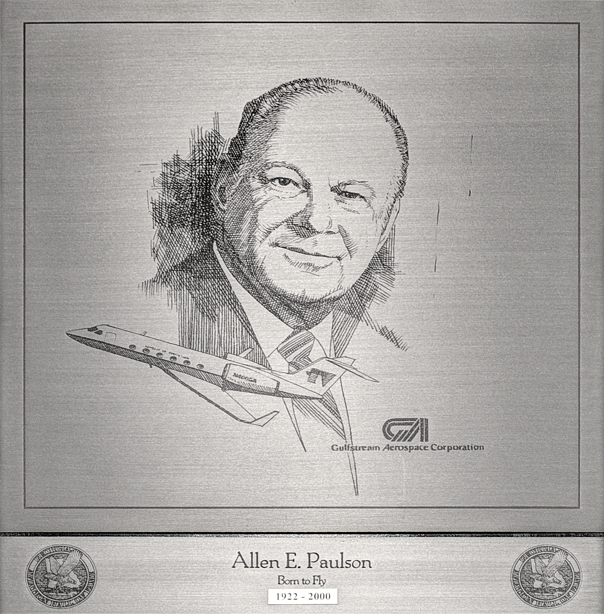 Allen E. Paulson (1922 - 2000)